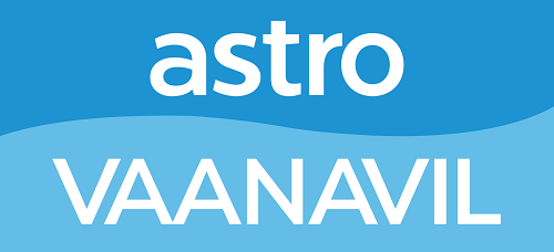 Astro Vaanavil channel logo